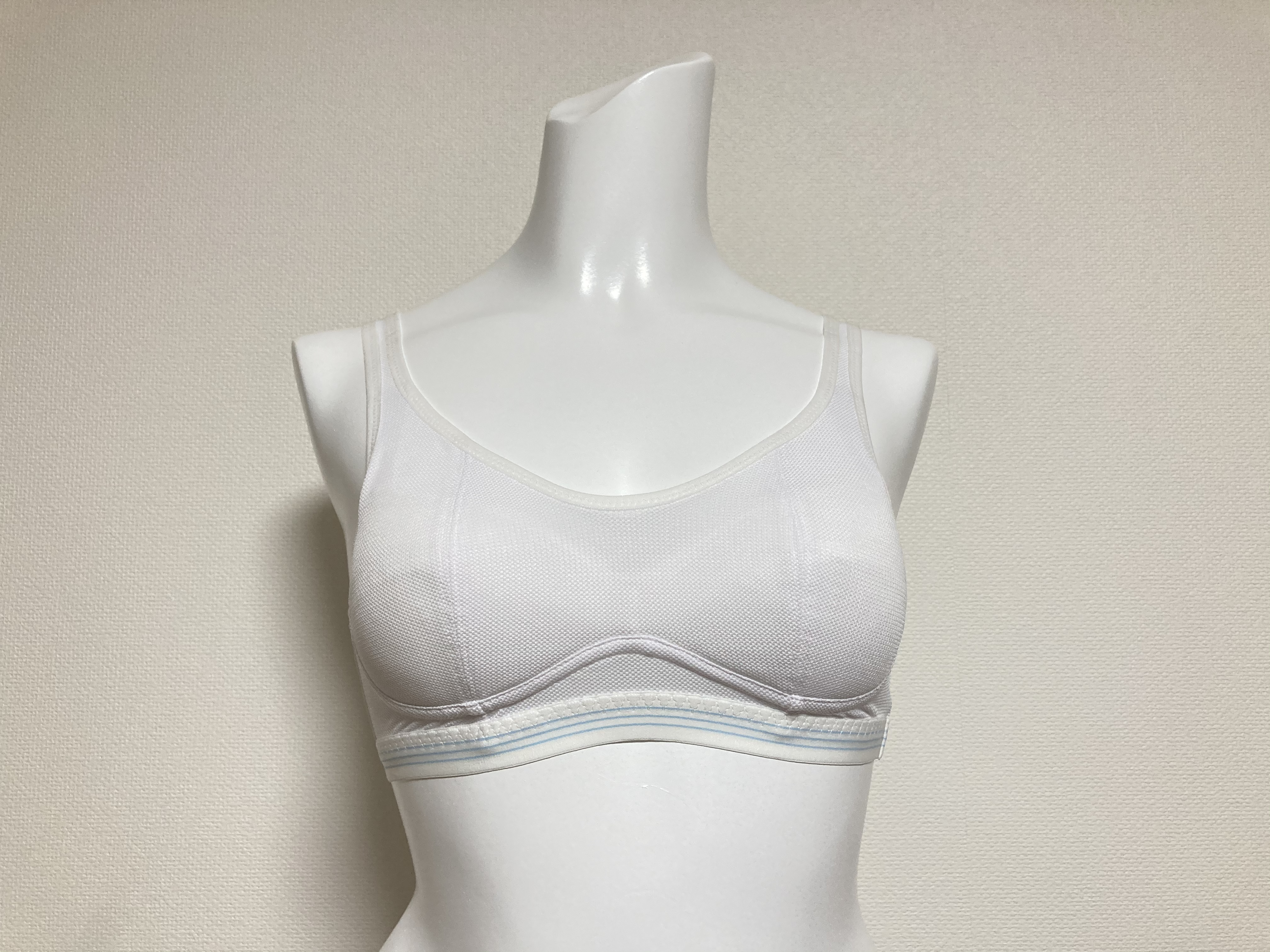 Lecien Bukatsu half top sports bra